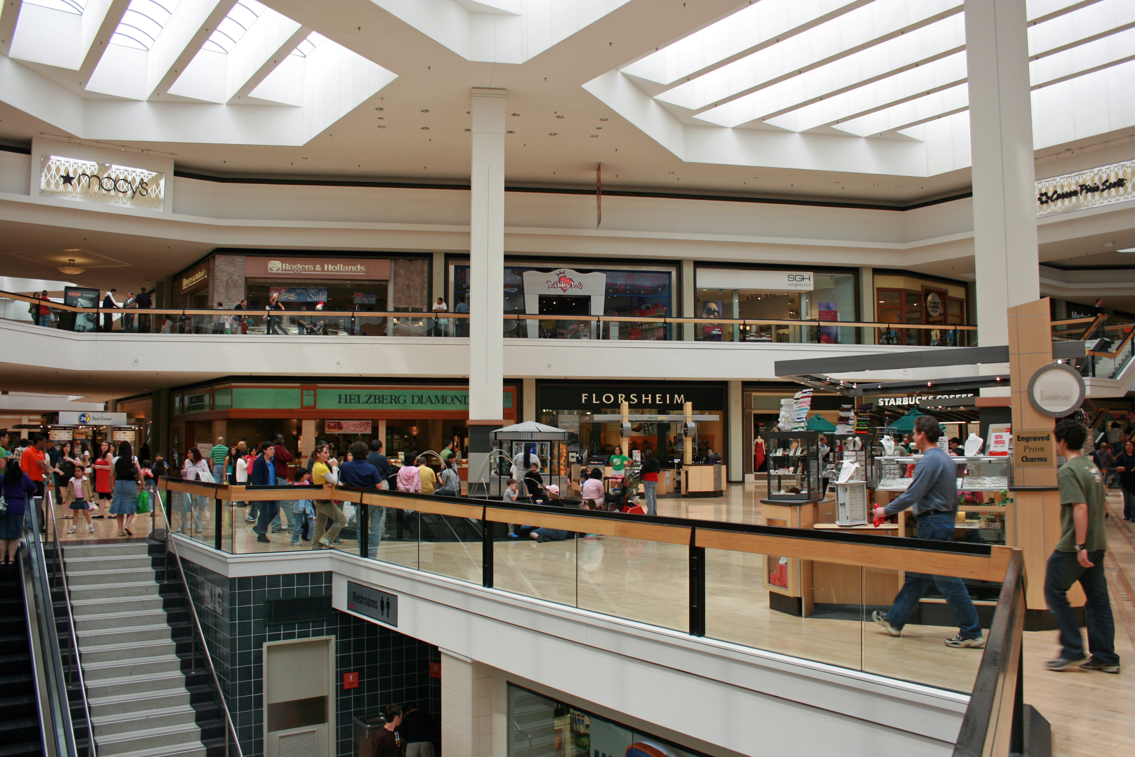 Westfield Fox Valley